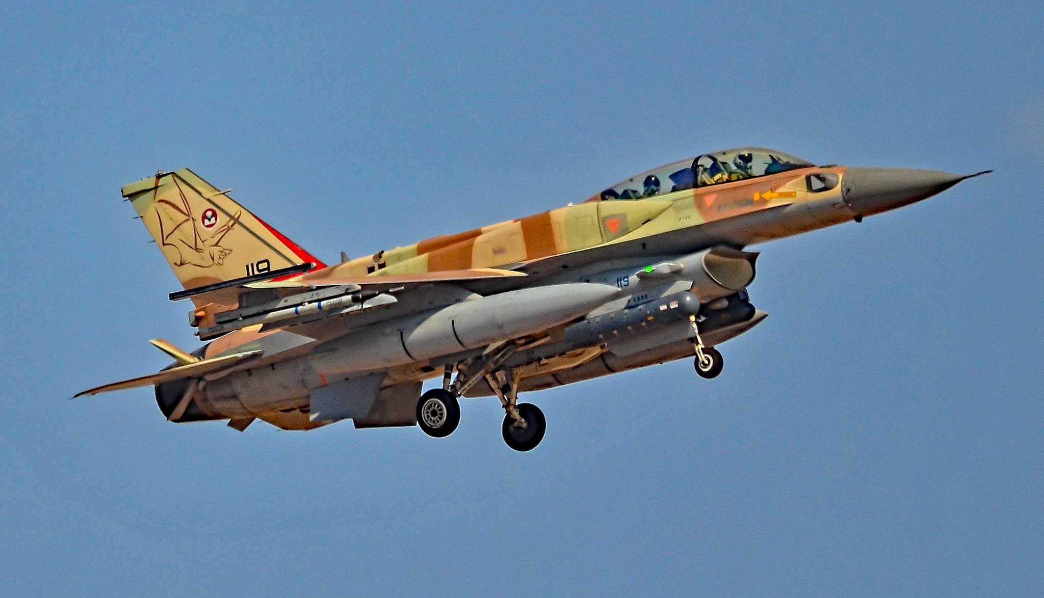 Red Flag 16-4 Las Vegas - Nellis AFB (LSV / KLSV) TDelCoro August 24, 2016